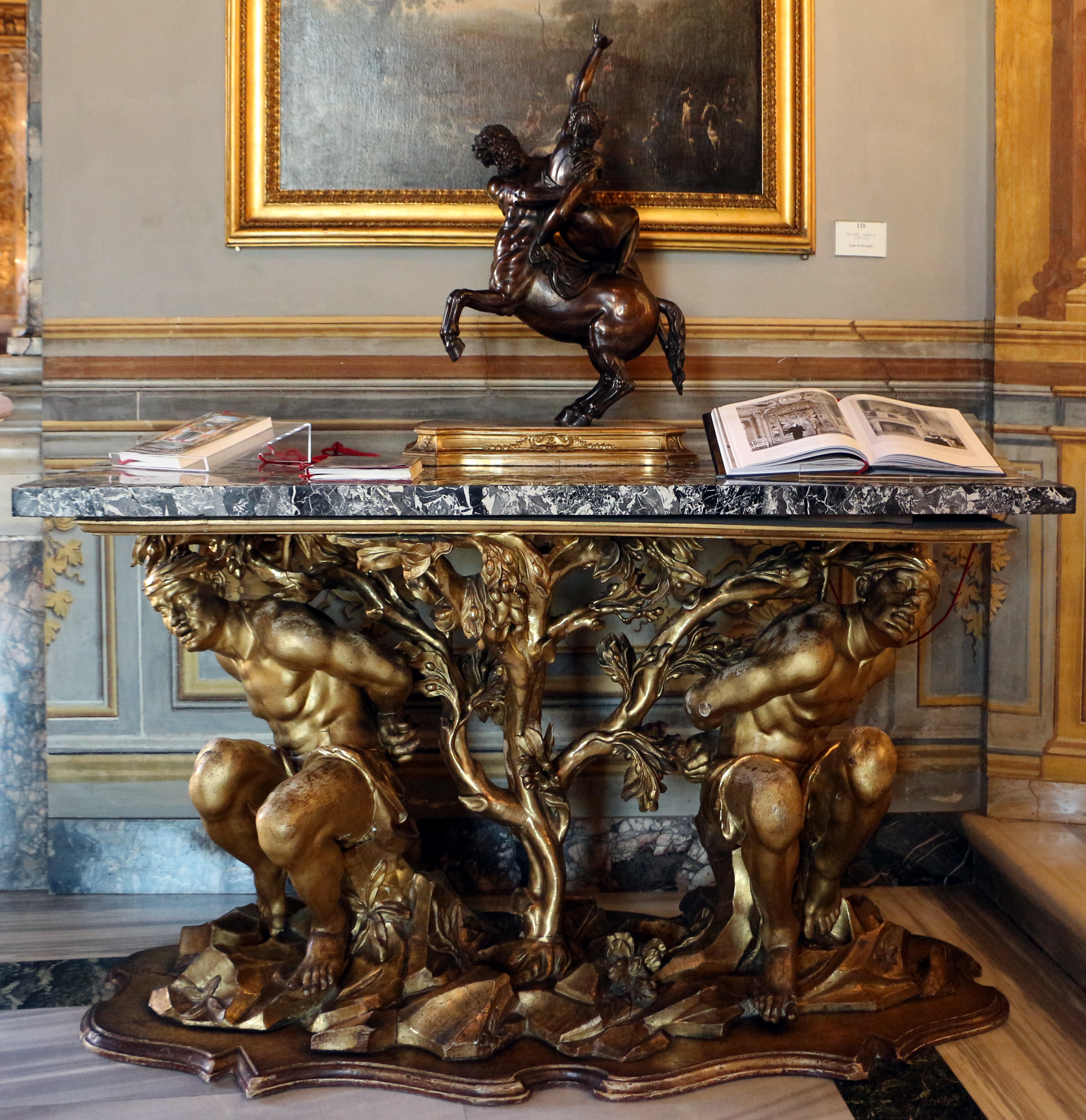 Galleria Colonna (Rome)